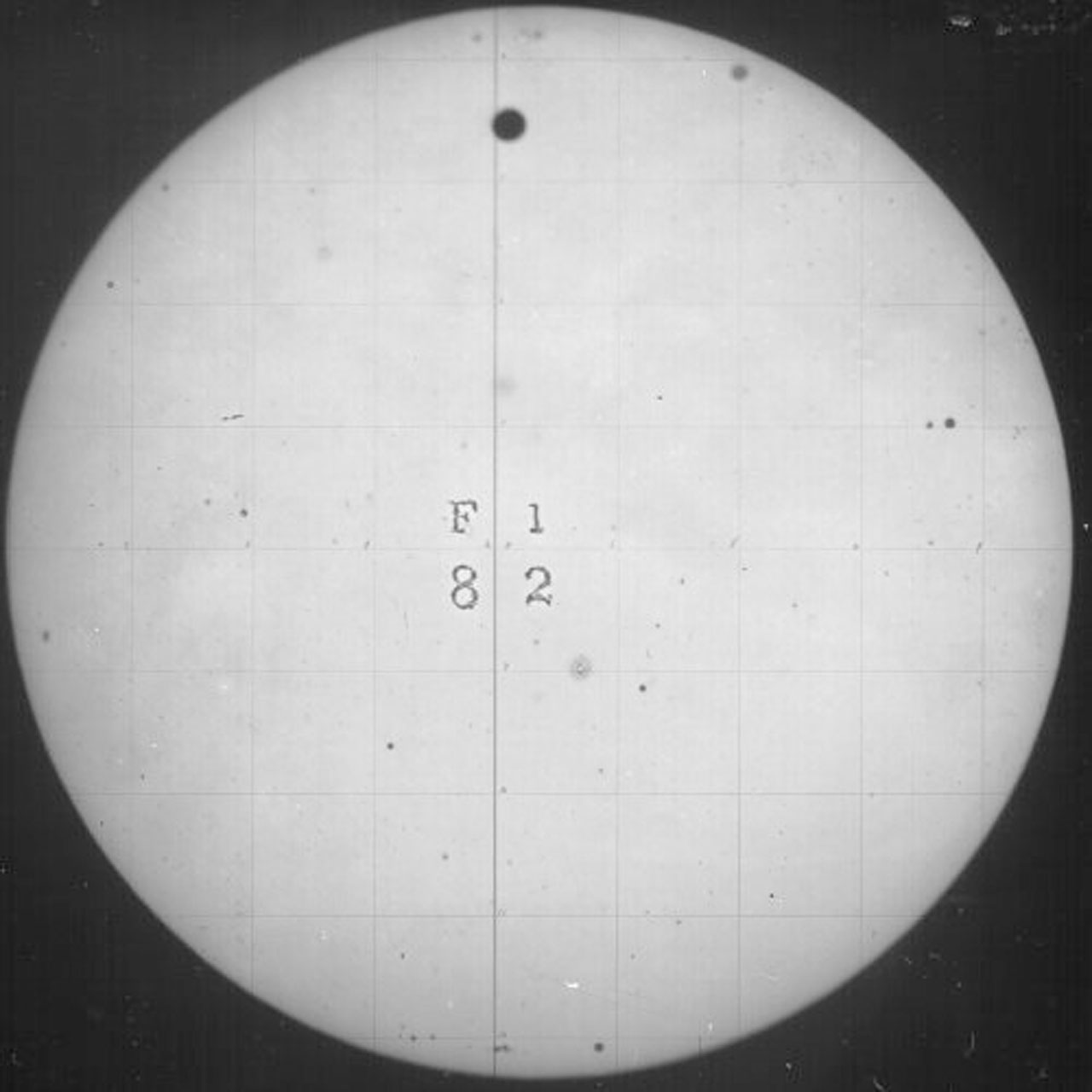 "Images from photographic plates of the Transit of Venus"